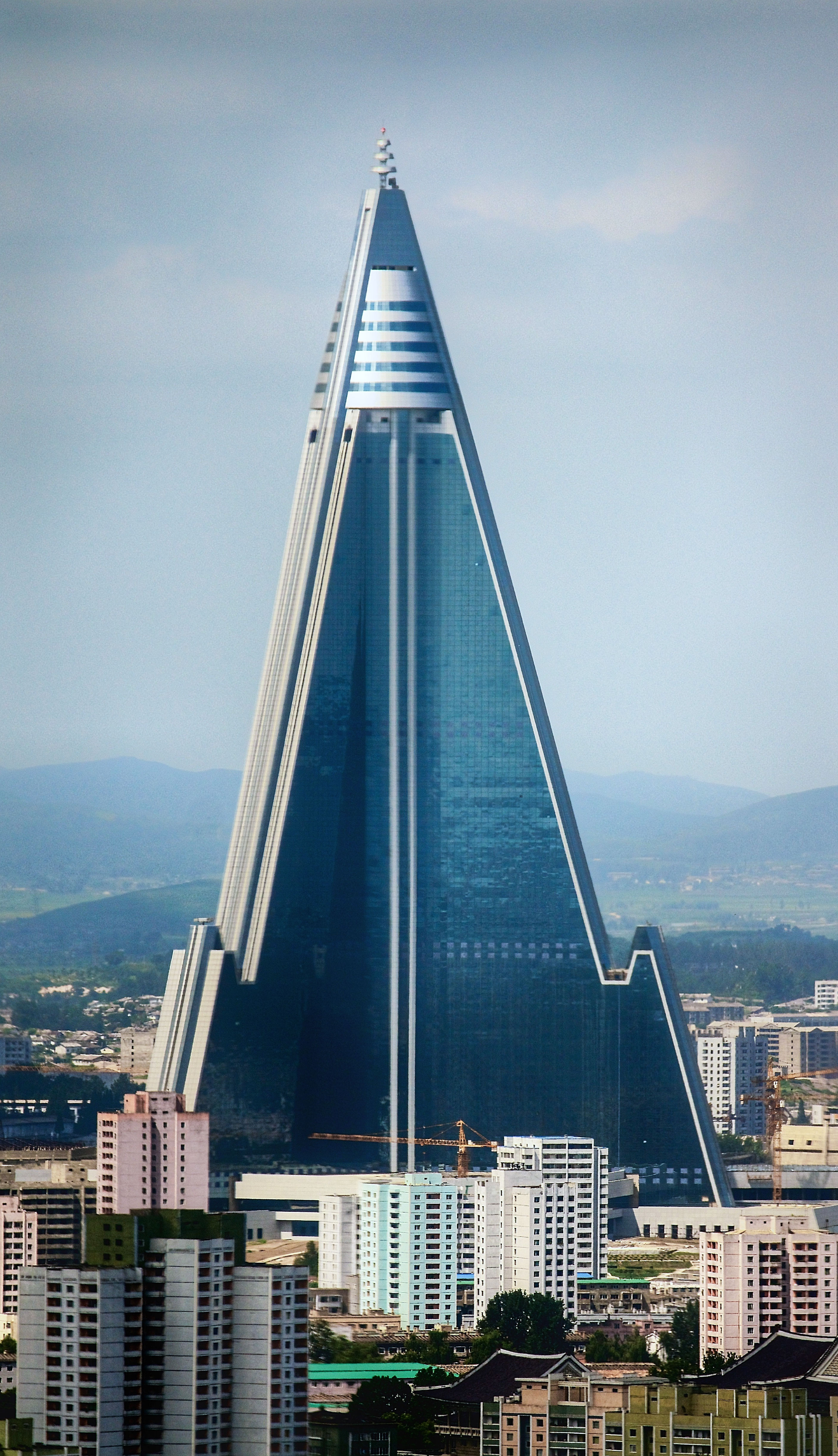 Ryugyong Hotel - August 27, 2011 (Cropped)